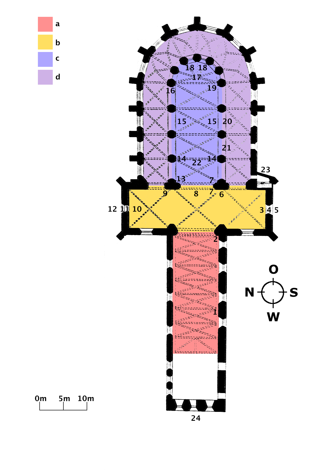 Ludgerikirche Norden (Ostfriesland), floor plan.